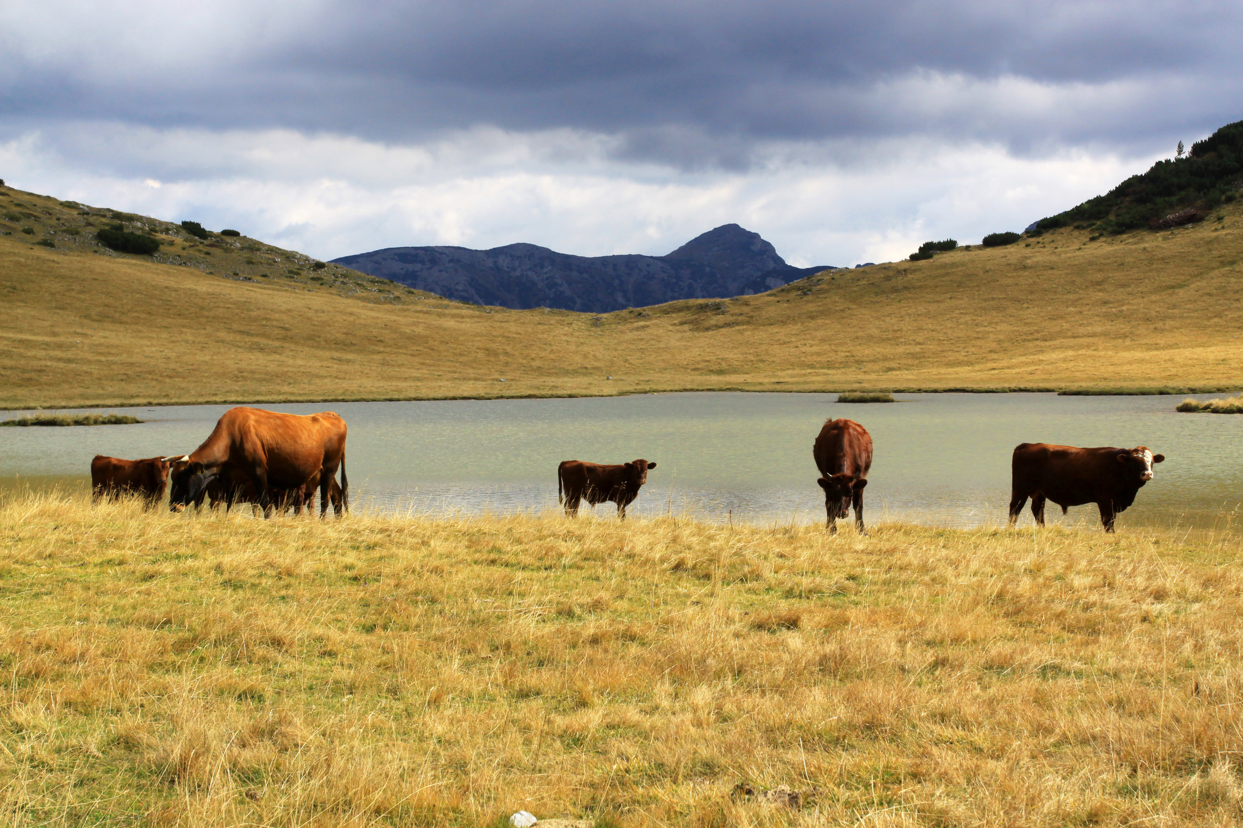 Cows stand close to Lumbardhi lake in Rugova Mountains, Peja, Kosovo